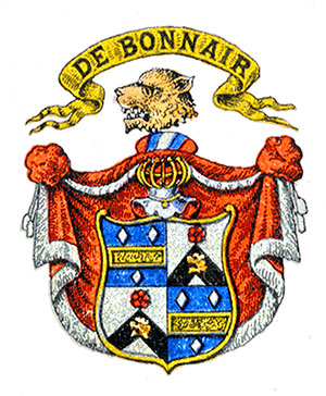 Arms of Bethunes in Sweden